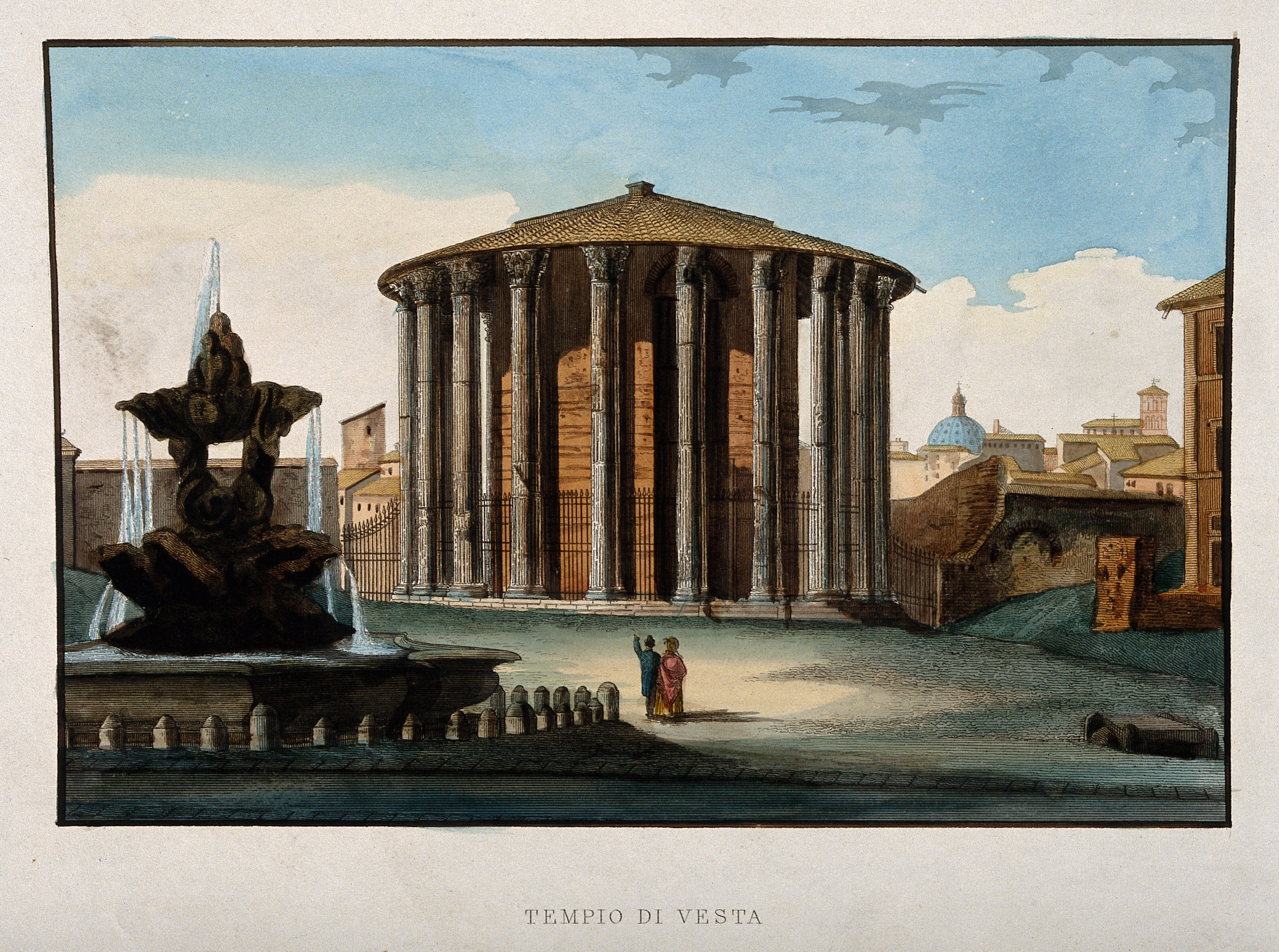 Temple of Vesta or Fortuna Virilis, Rome. Coloured etching. Iconographic Collections Keywords: Temple of Vesta (Rome, Italy)